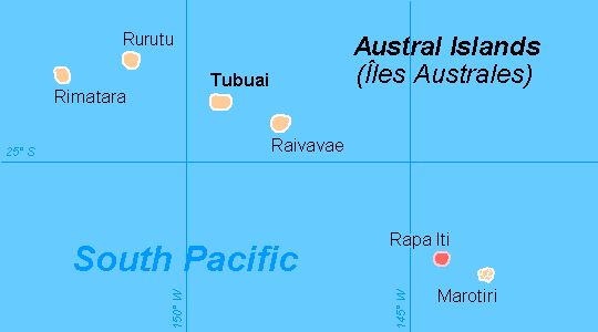 Location of Rapa Iti within Austral Islands